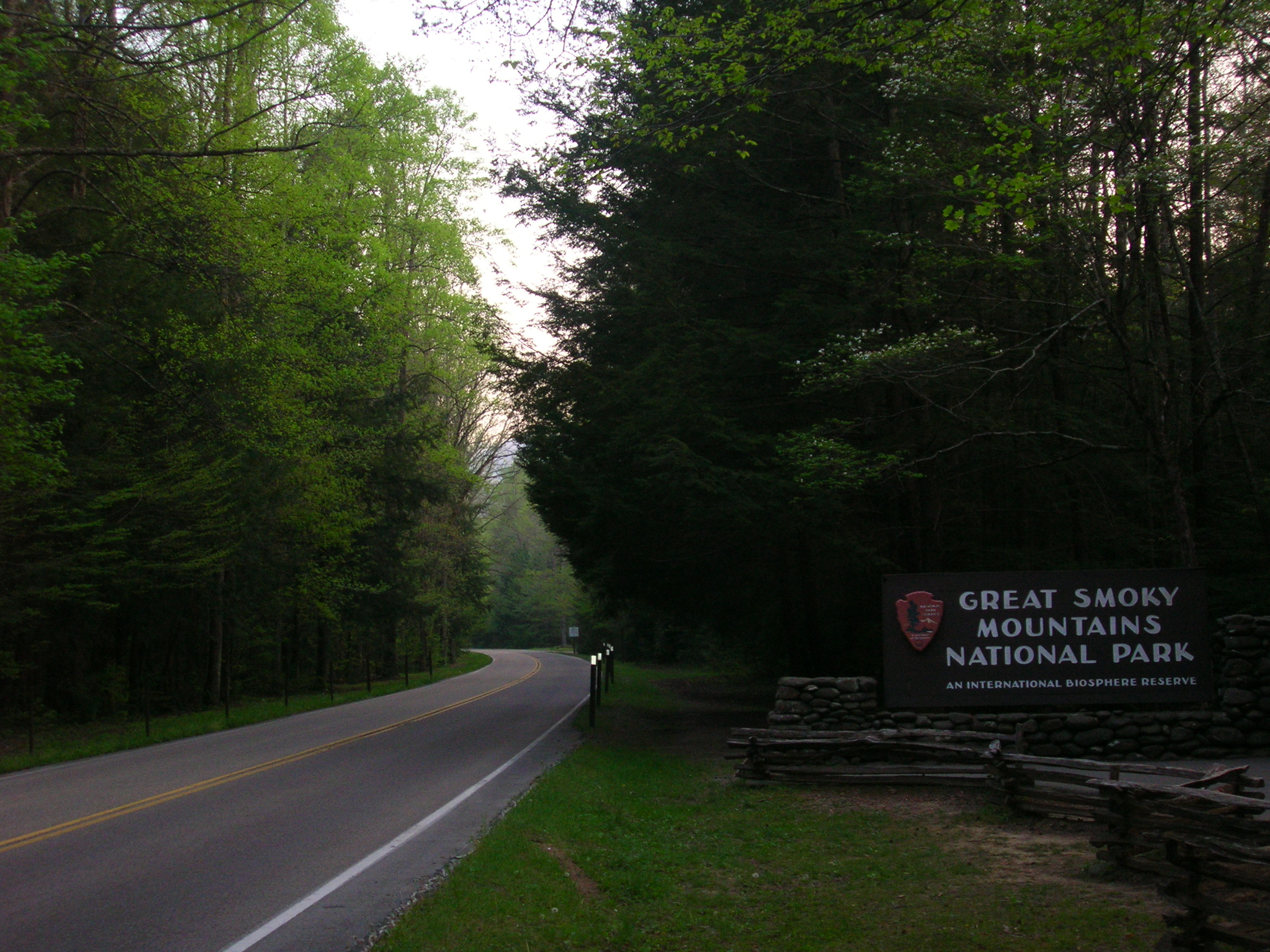 The Great Smoky Mountains National Park is the most visited national park in the United States of America, with most of its patrons arriving from the town of Gatlinburg, Tennessee, along U.S. Highway 441 South. Photo taken by myself, Scott Basford, in April of 2006.